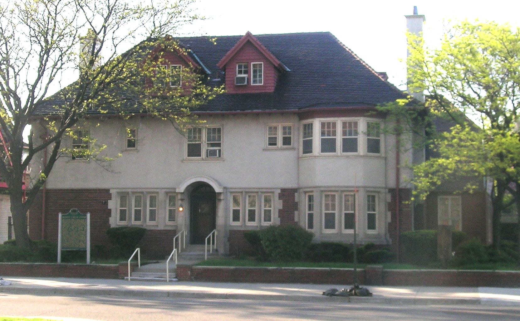 The Albert Kahn House — in the Brush Park district of Detroit, southeastern Michigan. Residence of notable architect Albert Kahn. Contributing property in the Brush Park Historic District. Listed on the National Register of Historic Places ('NRHP # 72000668). The building is a Registered Michigan State Historic Site.